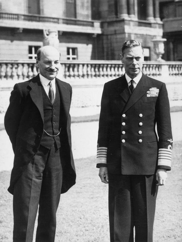 British Political Personalities 1936-1945 The 1945 General Election: King George VI standing with the Labour Prime Minister, Clement Attlee, in the grounds of Buckingham Palace, London.